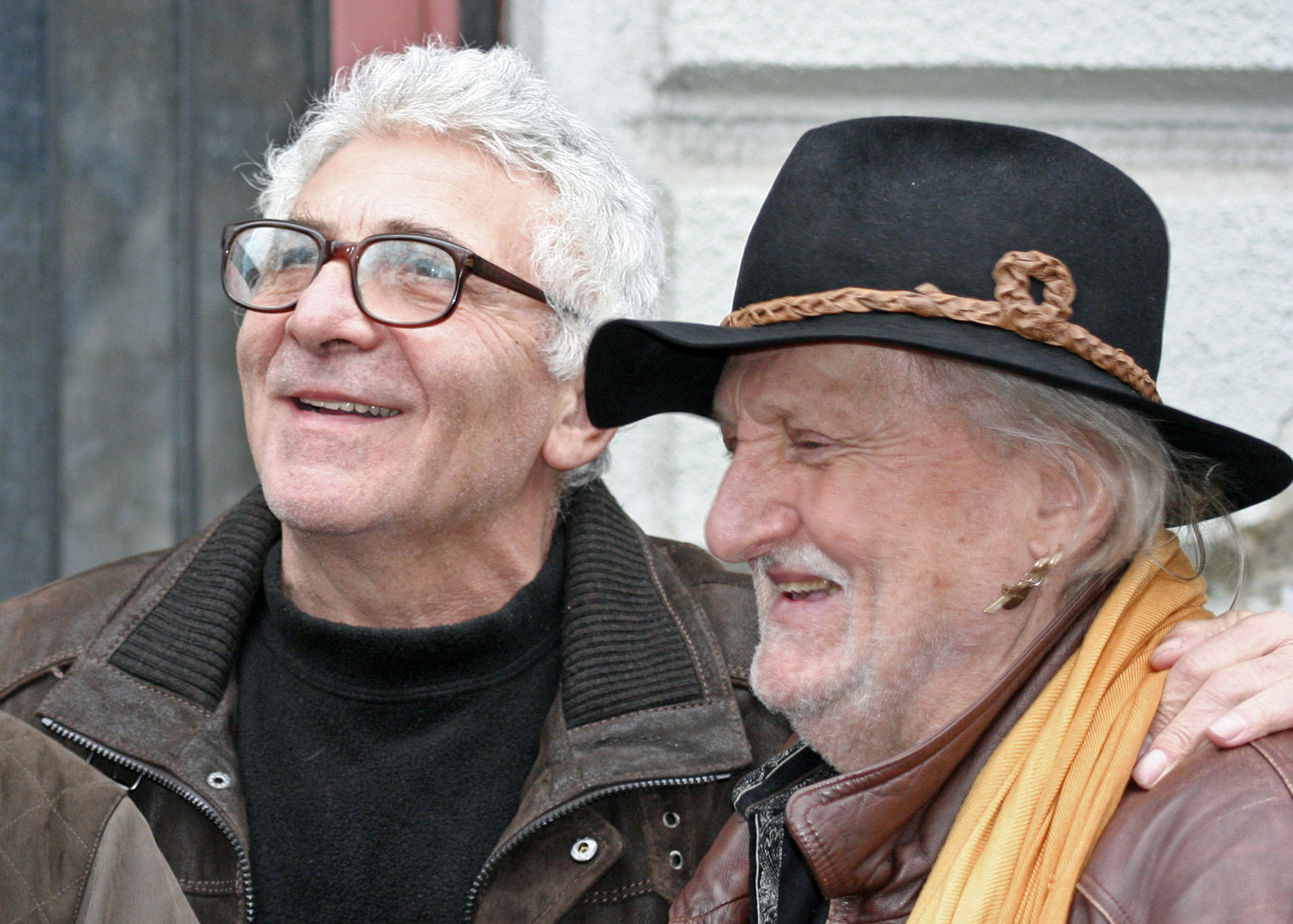 József Székhelyi and László Benkő legendary rock musician (Omega) - February 2016